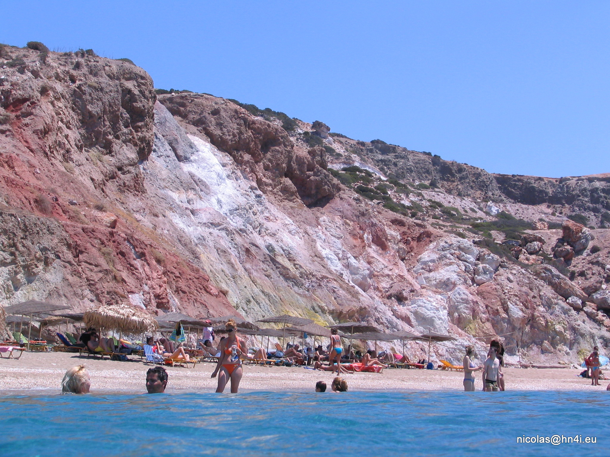 This is a photography of Natura 2000 protected area with ID GR4220020